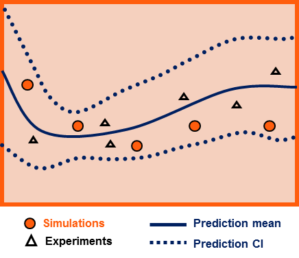 The outcome of bias correction, including an updated model (prediction mean) and prediction confidence interval. Drawn and granted permission to use by Dr. Paul D. Arendt from Northwestern University